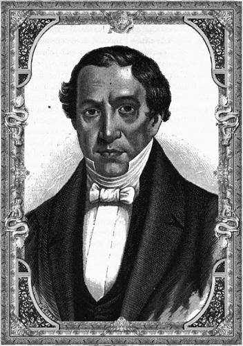 Self-portrait of José María Bocanegra, Lithograph (1870-1907).